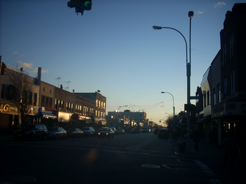 18th Avenue and 66th Street in Bensonhurst, Brooklyn.